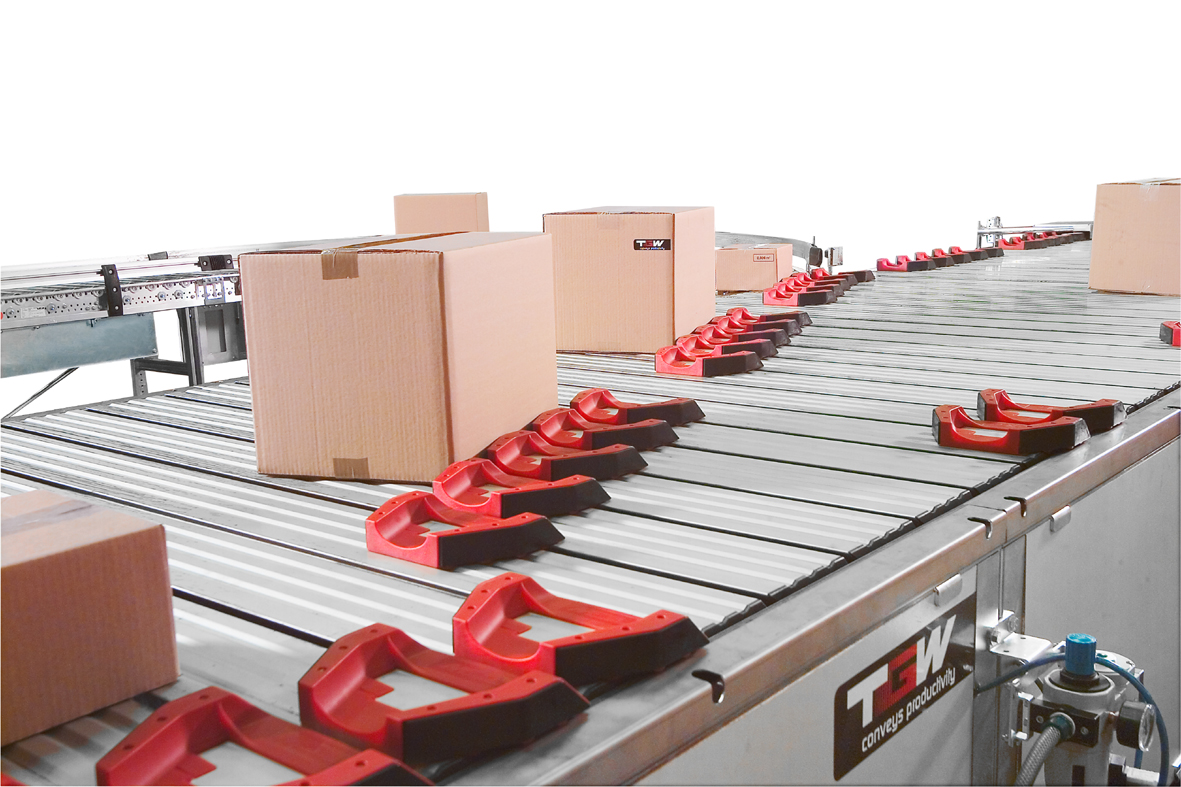 sliding shoe sorter NATRIX